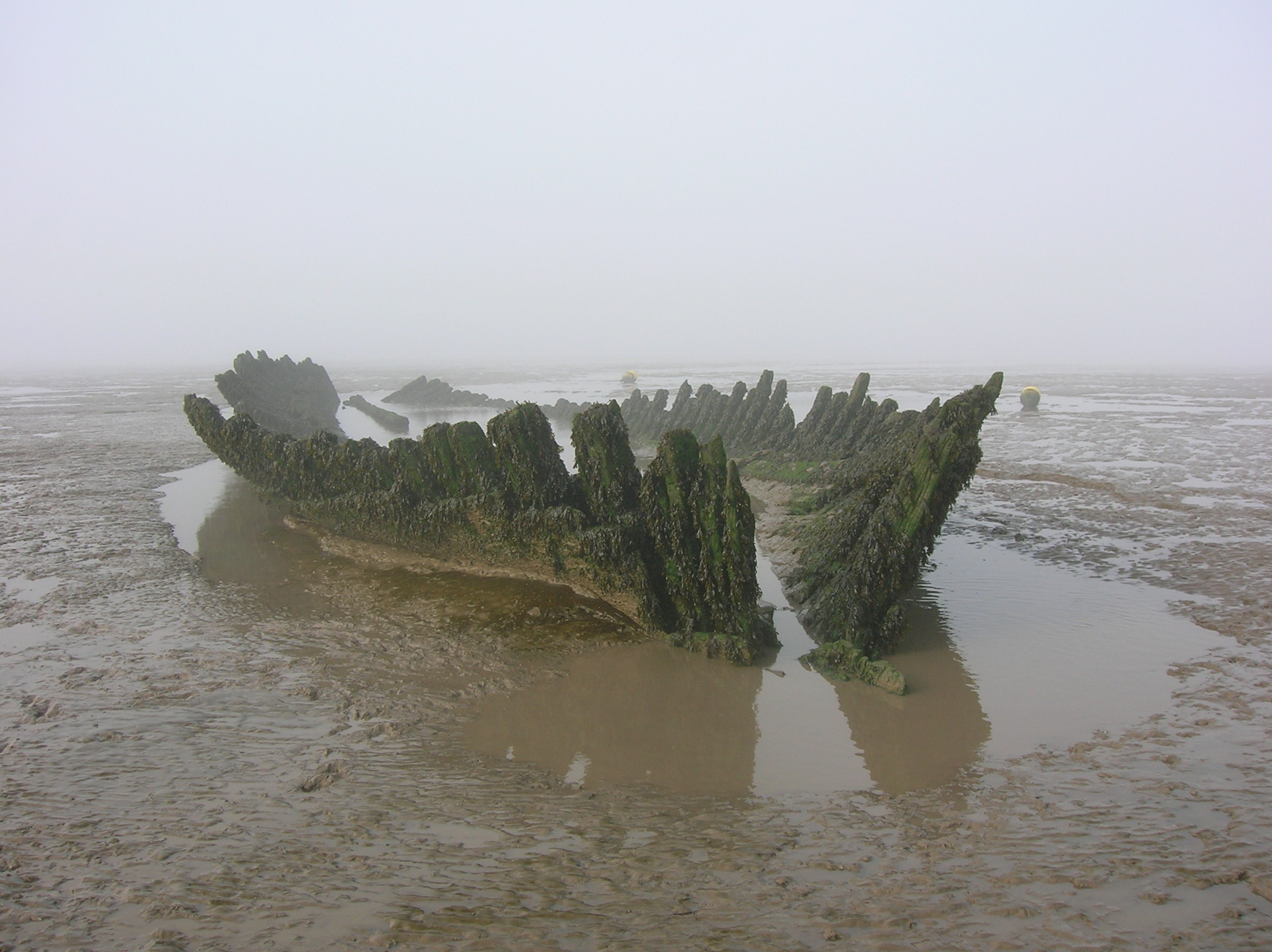 Wreck of the SS Nornen at Berrow in Somerset, England. The ship ran aground on 3 March 1897.